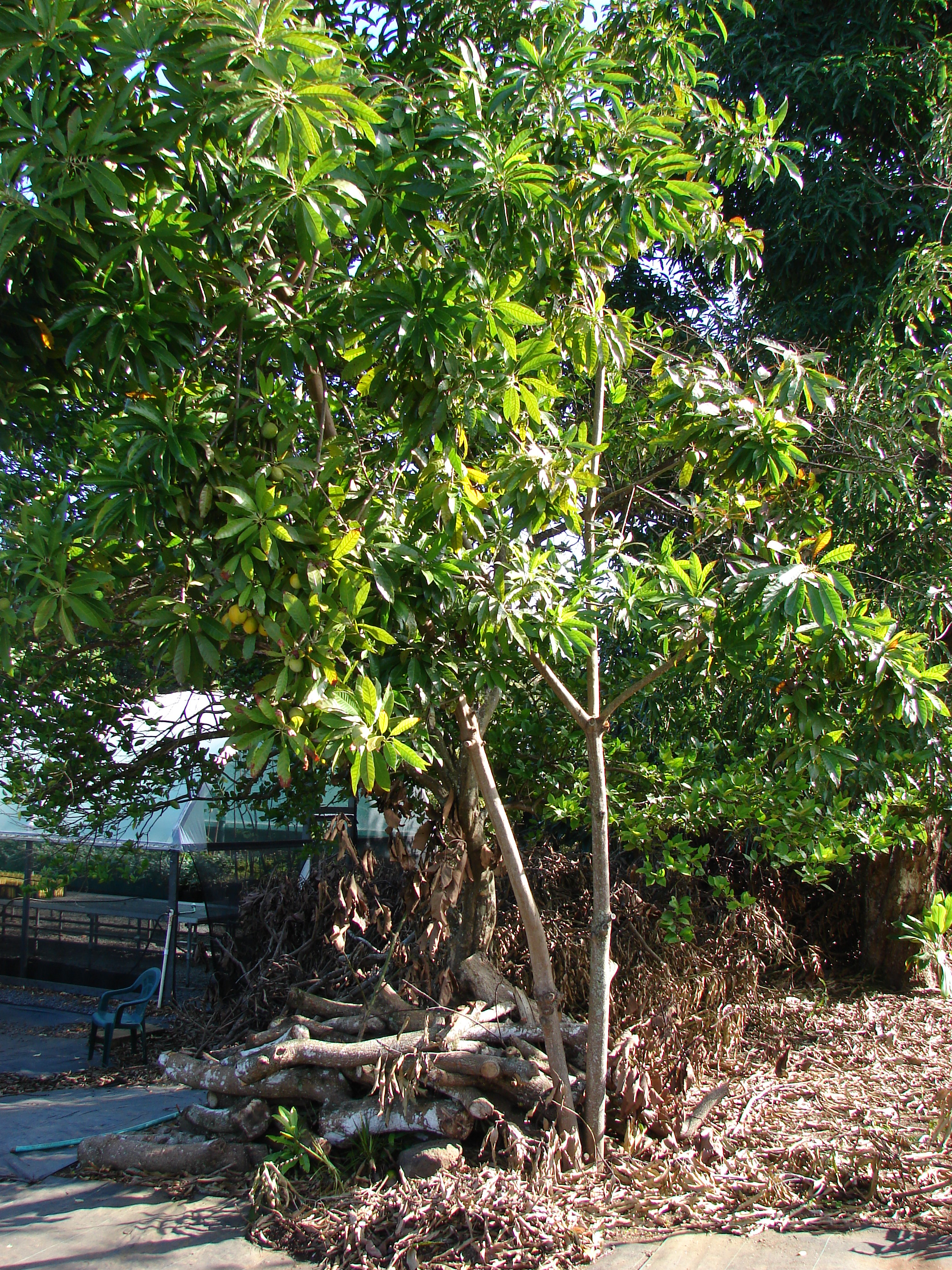 Pouteria campechiana (habit). Location: Maui, Hoolawa Farms Haiku